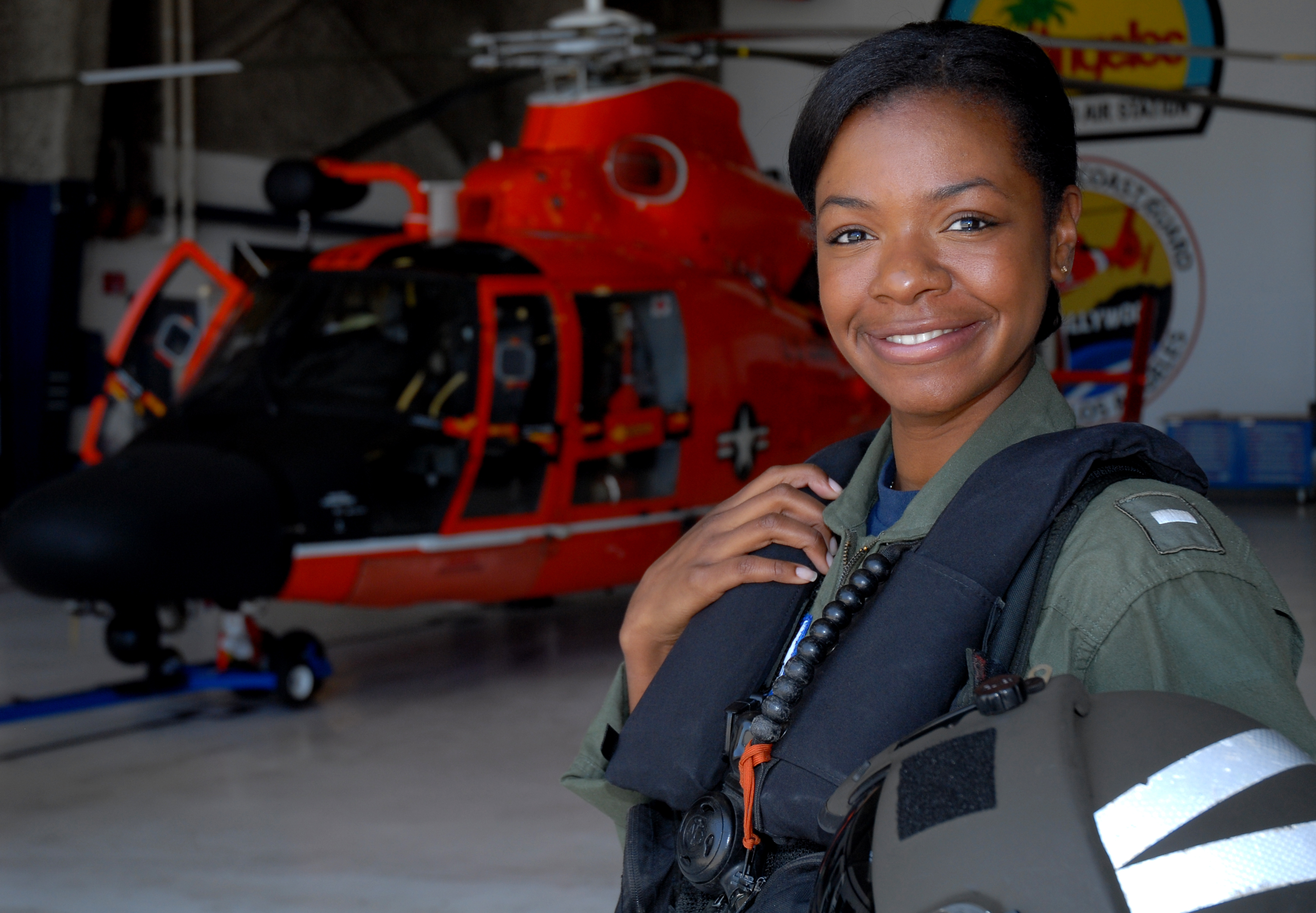 Lt. j.g. Lashanda Holmes stands in front of an MH-65 Dolphin helicopter at Air Station Los Angeles, Aug. 17, 2010. U.S. Coast Guard photograph by Petty Officer 1st Class Adam Eggers.